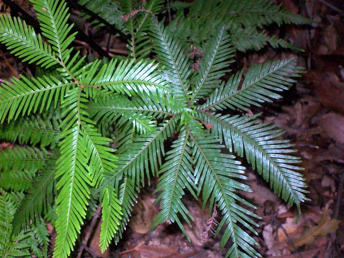 Shield Fern, very likely to be Sticherus flabellatus. Photographed under a waterfall at Elvina Bay, Ku-ring-gai Chase National Park, Australia